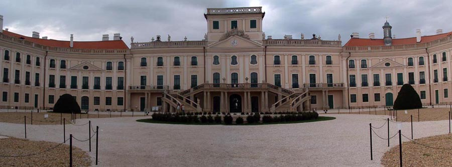 Eszterháza Palace in Fertőd, Hungary